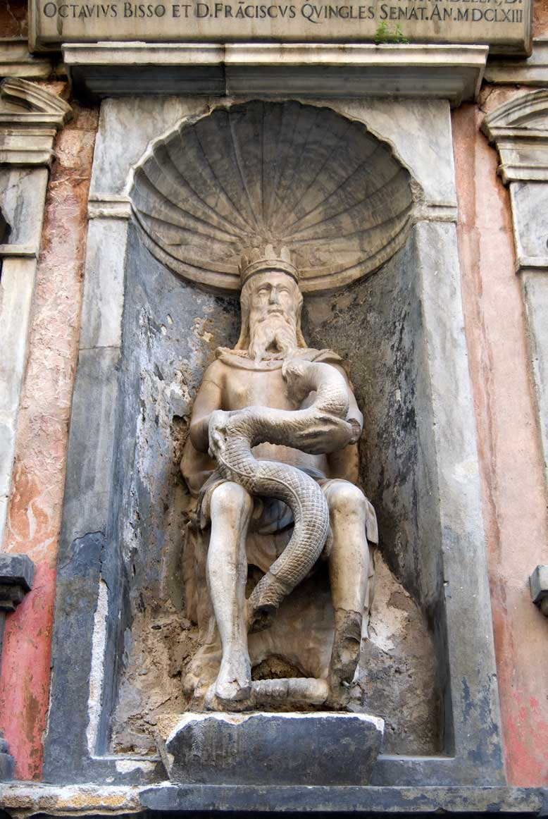 Pietro de Bonitate, Genio di Palermo (Palermu lu Grandi), marble, 1483. Piazzetta Garraffo, Palermo, Italy.